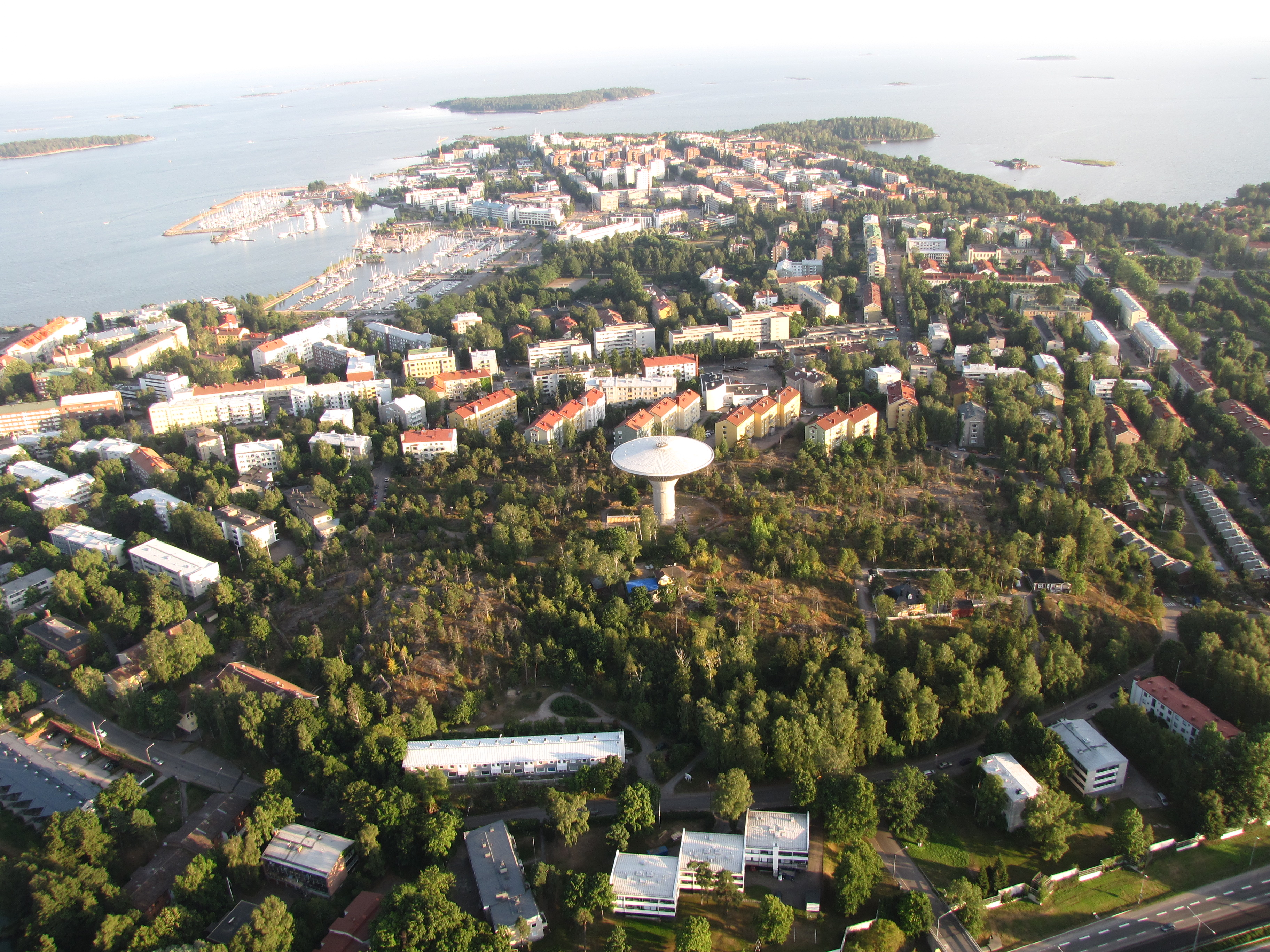 Lauttasaari photographed from a hot air balloon. The picture shows most of the eastern part of the island.